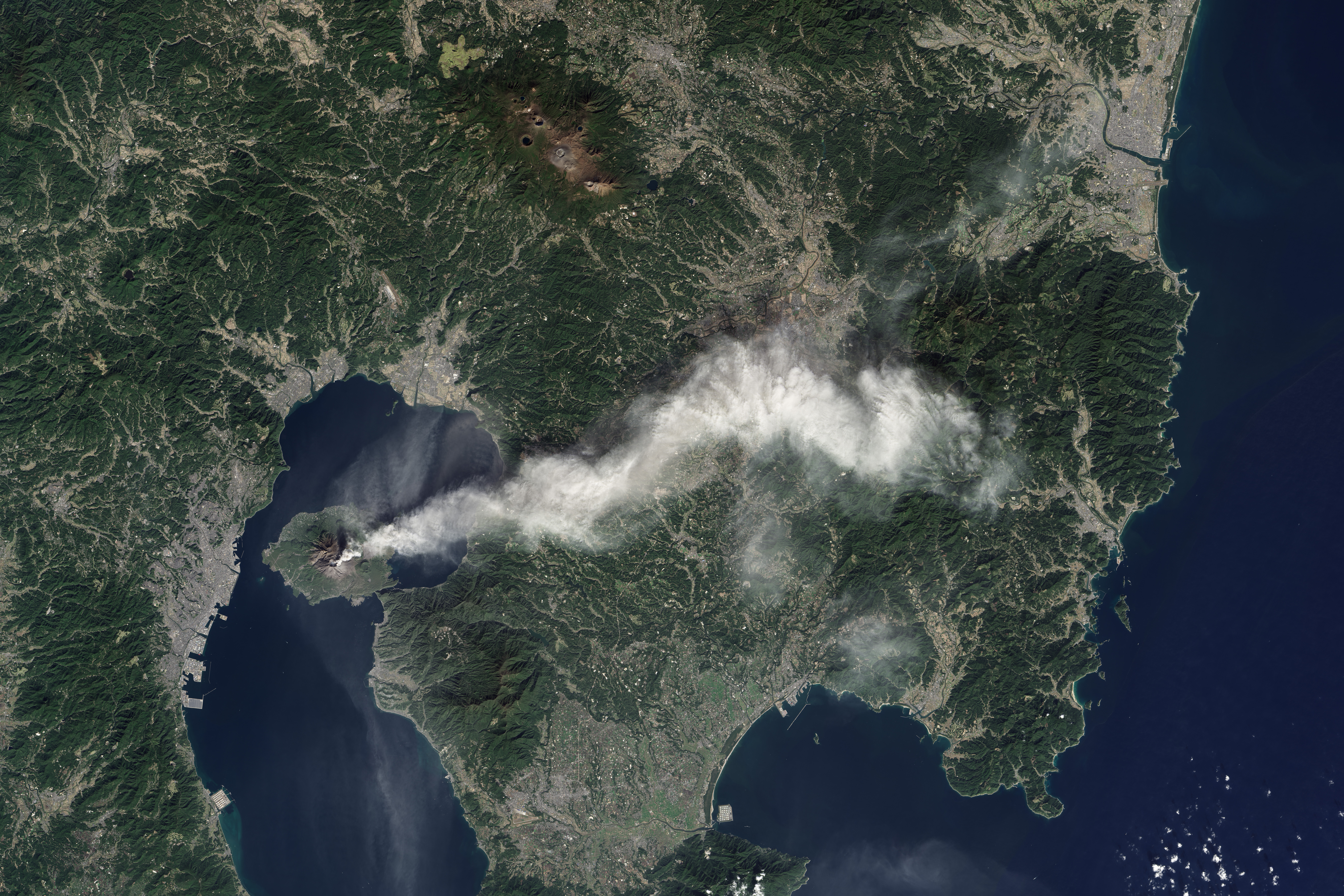 Sakura-jima volcano emitted a dense plume of ash over the Japanese island of Kyushu on November 23, 2013. Currently Japan’s most active volcano, Sakura-jima explodes several hundred times each year. These eruptions are usually small, but the larger eruptions can generate ash plumes that rise 3,800 meters (12,000 feet) or more above the 1,040-meter (3,410-foot) summit. This true-color image was collected by the Operational Land Imager on Landsat 8.